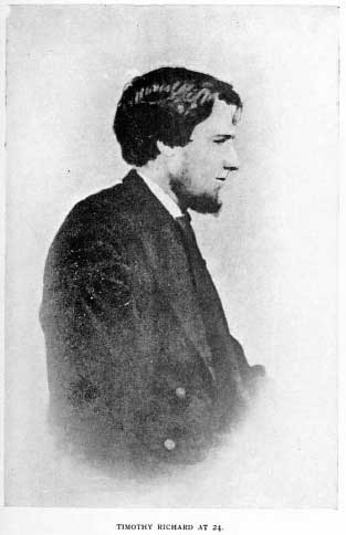 From Forty Five Years In China; Reminiscences by Timothy Richard D.D.; New York; Frederick A. Stokes Company; 1916